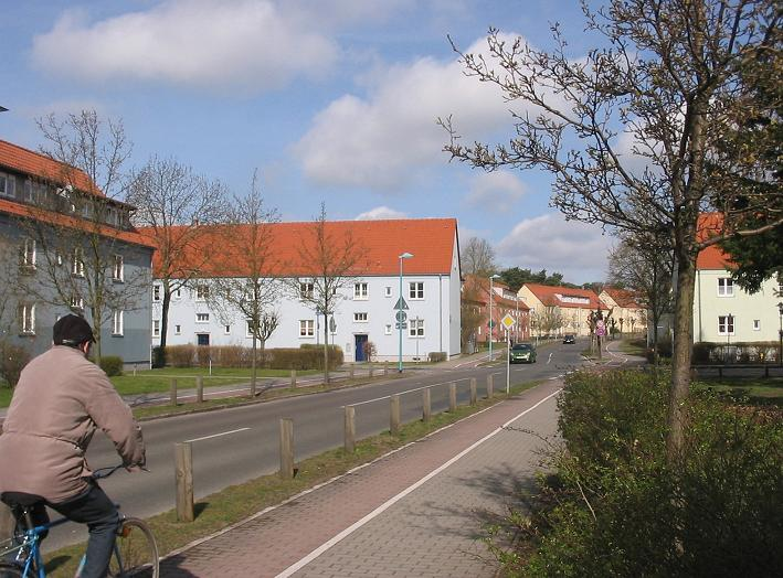 Daimler company housing estate in Ludwigsfelde, built about 1937. Ludwigsfelde is a town in the district Teltow-Fläming, state Brandenburg, Germany.